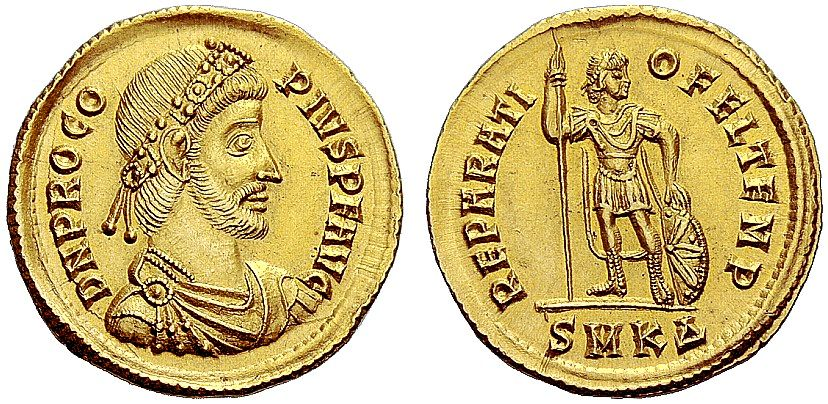 Procopius, 365–366, Solidus, Cyzicus, AV 4.31 g. D N PROCO – PIVS P F AVG Pearl and rosette-diademed, draped and cuirassed bust right. Rev. REPARATI – O FEL TEMP Procopius standing facing, head right, holding spear in right hand and resting left on shield. In exergue, SMKΔ. C 5. Depeyrot 5/1 and pl. 28, 5/1 (this coin illustrated). RIC 1.